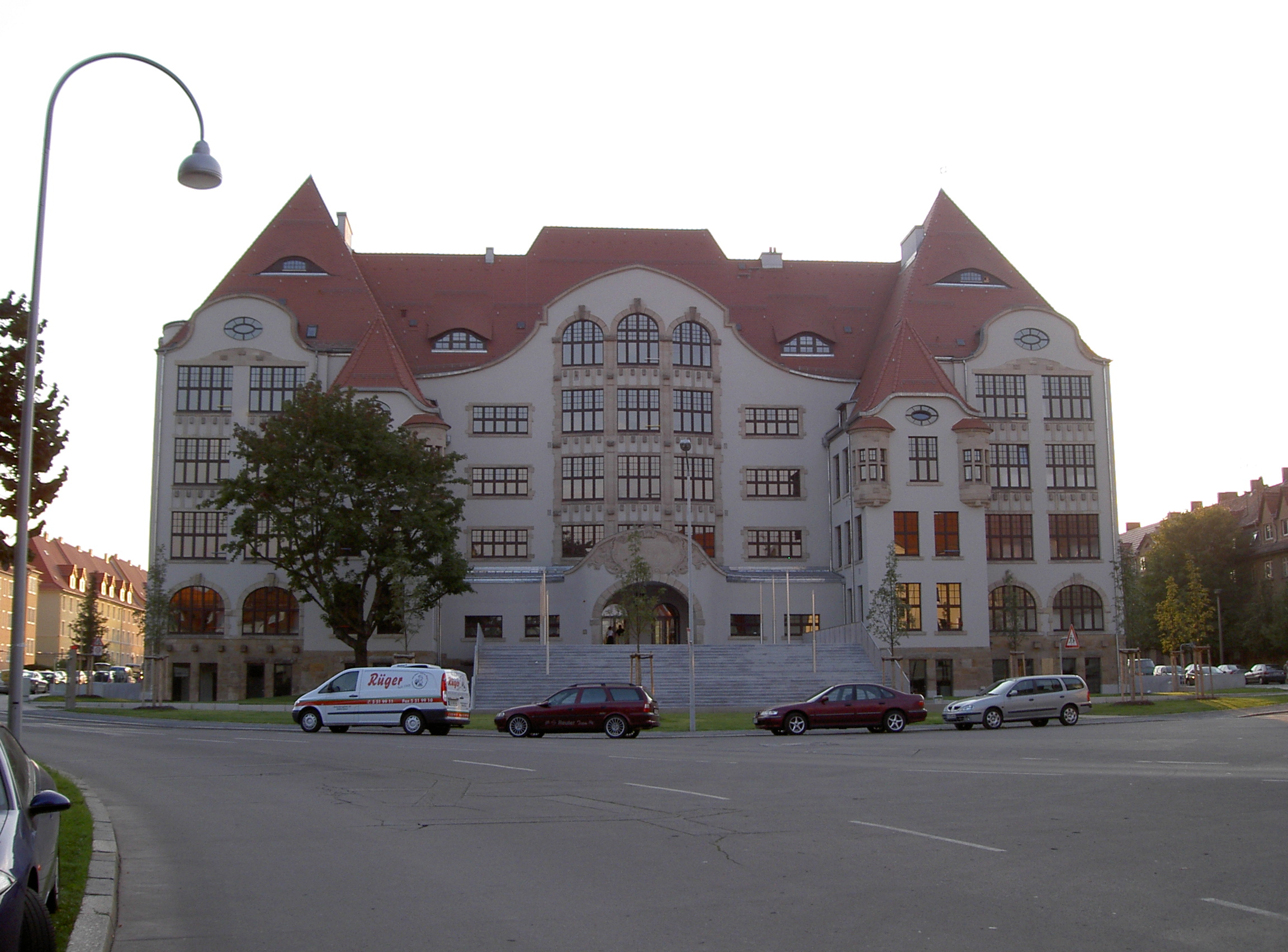 the front of the Gutenberg-Gymnasium